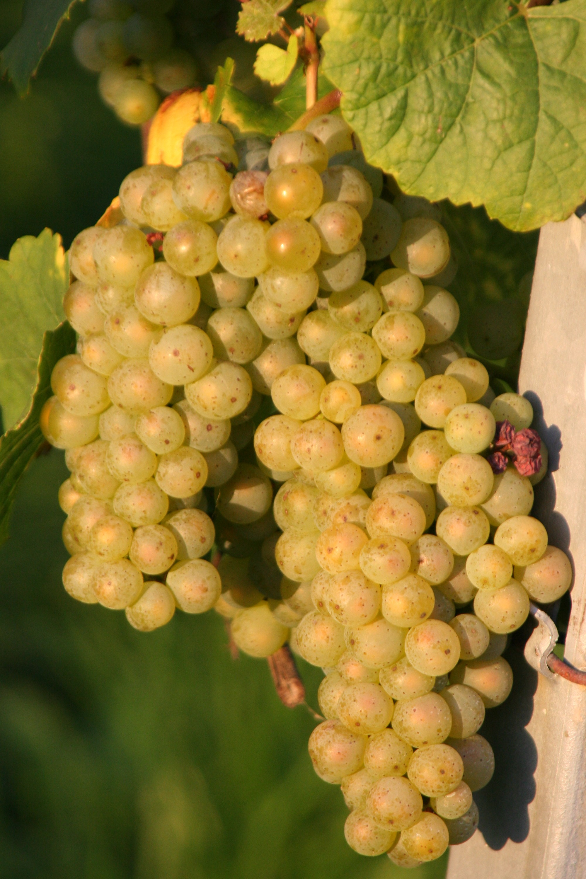 Grapes and leaves of the grape variety Rieslaner, photographed at the viticulture trail on the Schemelsberg hill in Weinsberg